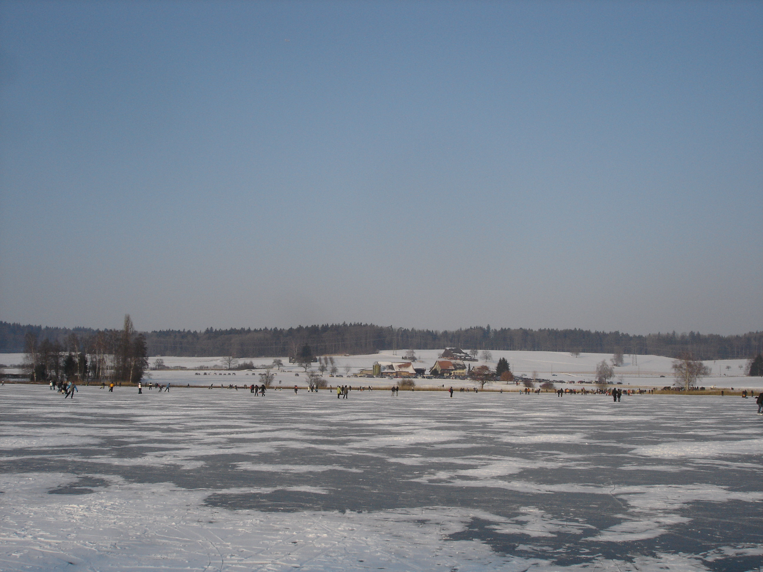 frozen Lake Katzensee